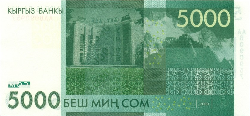 5000 som 2009 rev